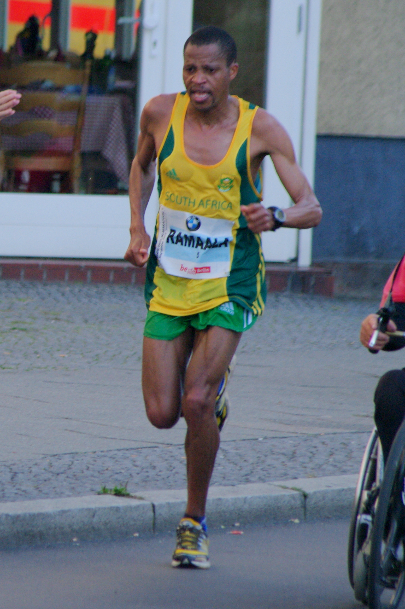 Berlin Marathon 2011, Kilometer 24, Innsbrucker Platz